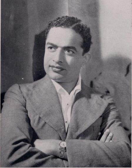 Mr. V. Shantaram, director and partner of Prabhat Film Co